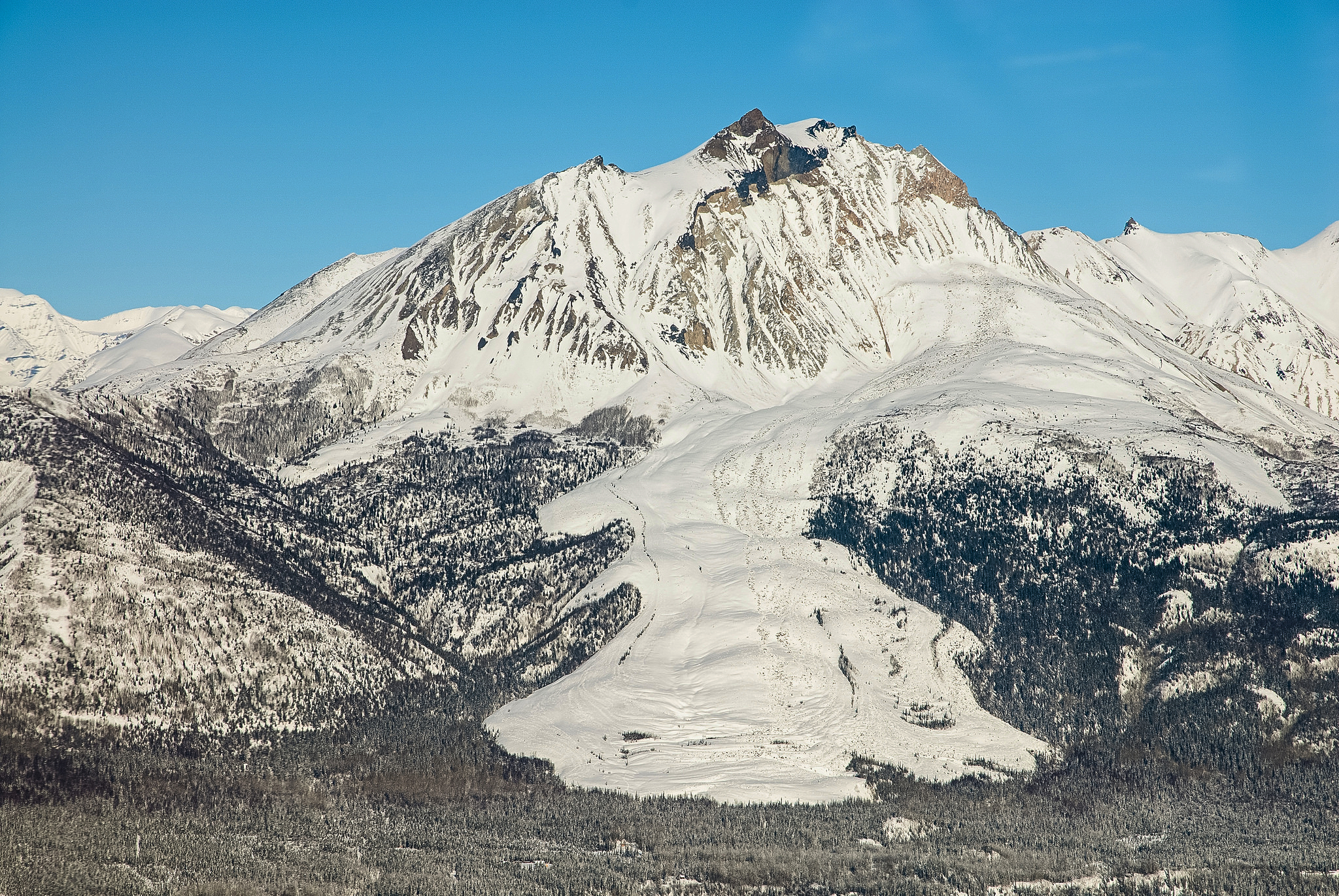 The Sourdough Peak rock glacier (Wrangell-St. Elias National Park, Alaska) looks much more like a glacier when snow covers its rocky surface, coloring it an icy white in the wintertime.